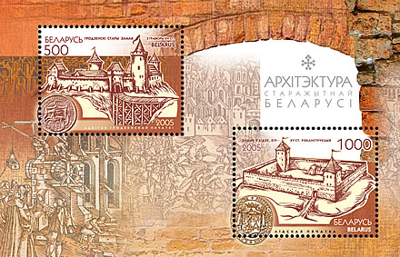 Stamp of Belarus